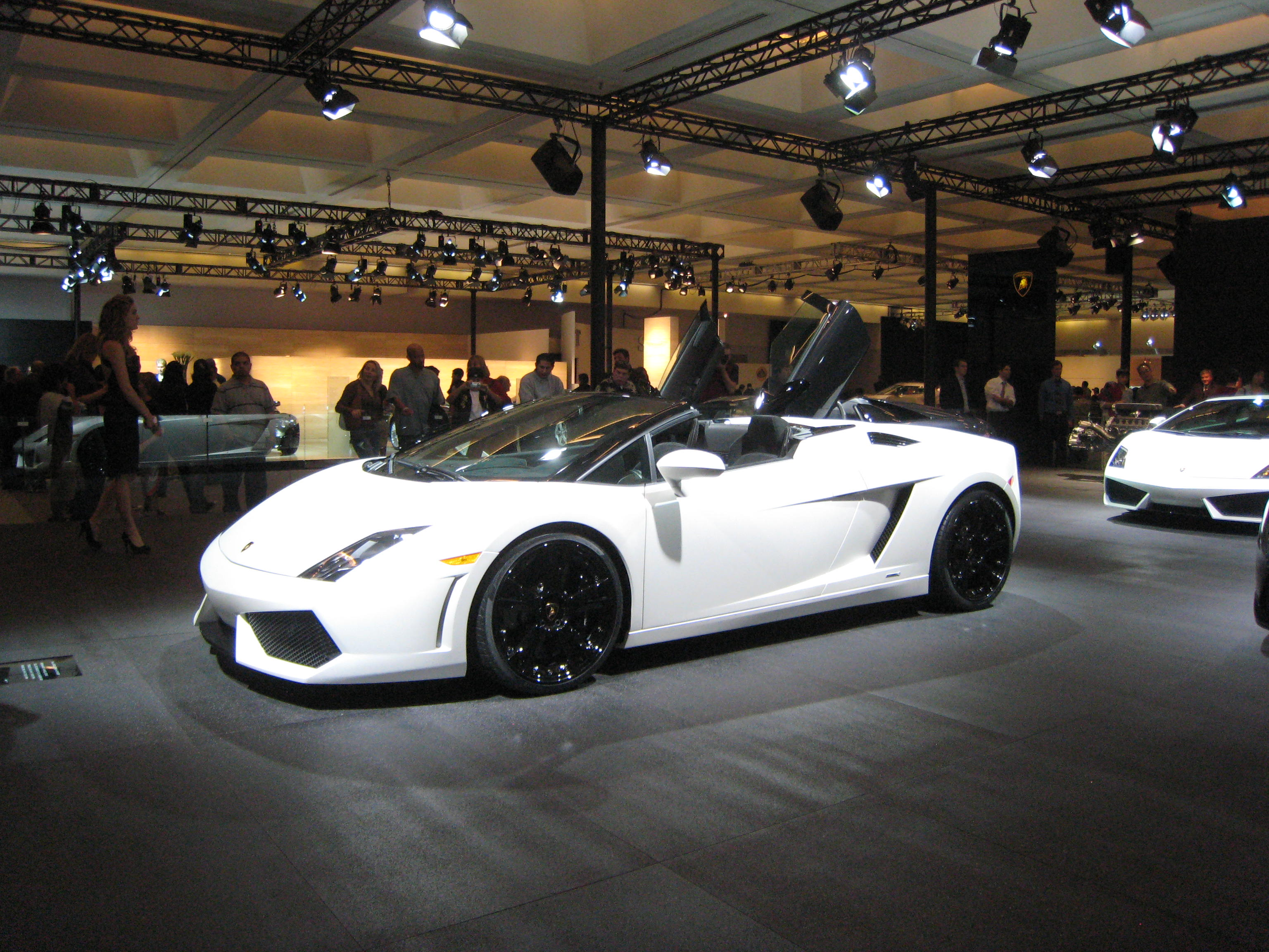 A white Lamborghini Gallardo LP560-4 Spyder